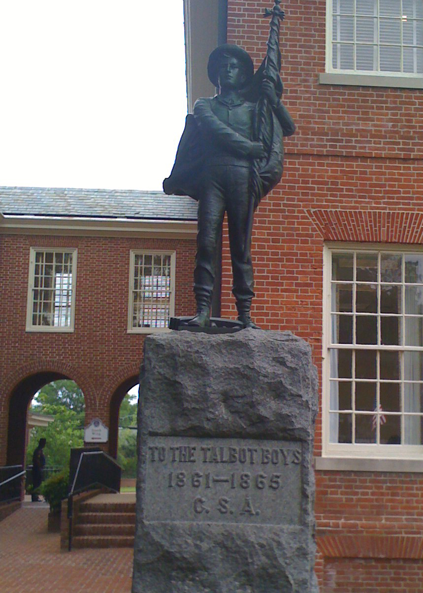 Statue in front of courthouse in Easton. It was erected in 1916 [1].